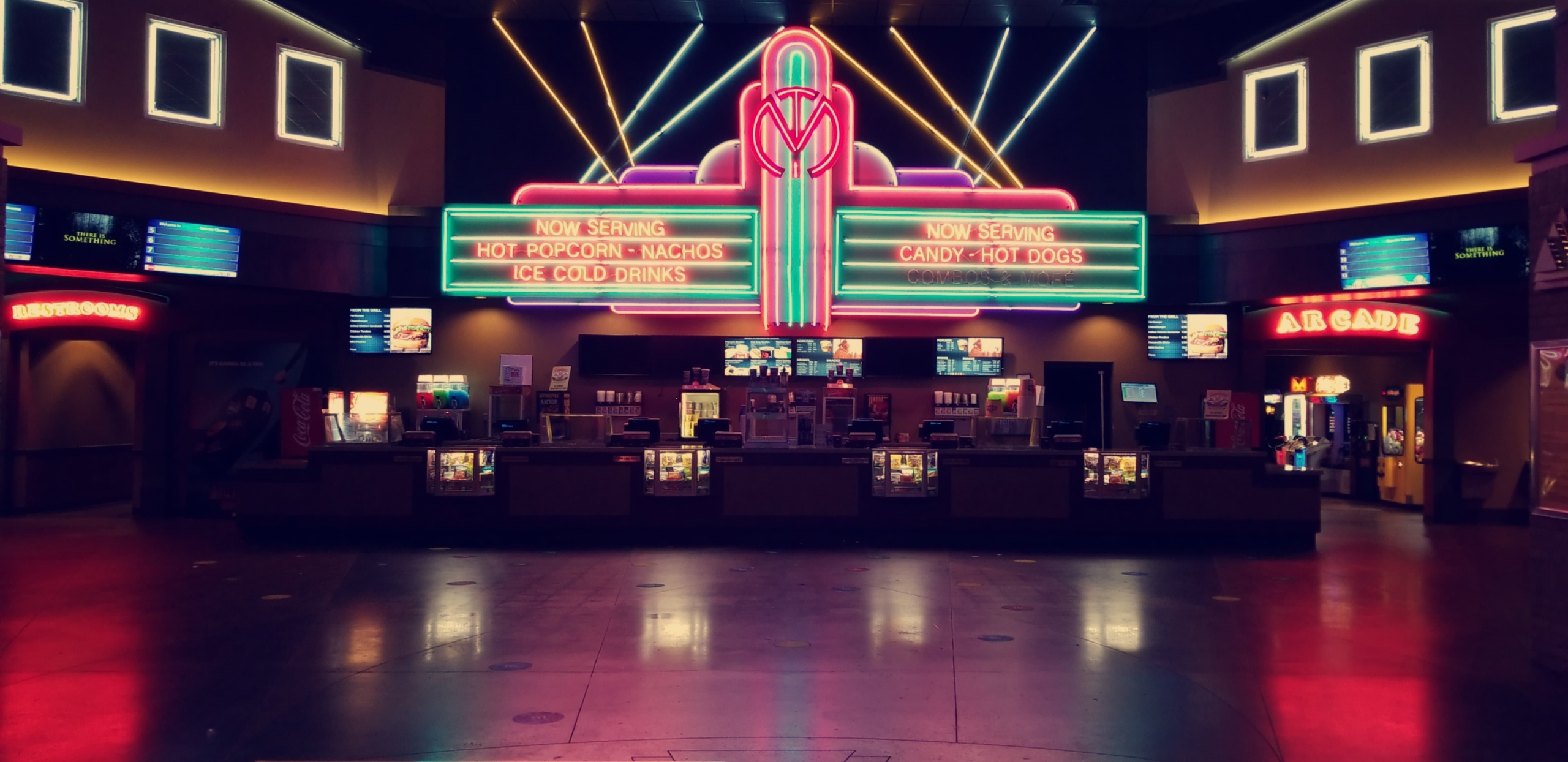 DESOTO